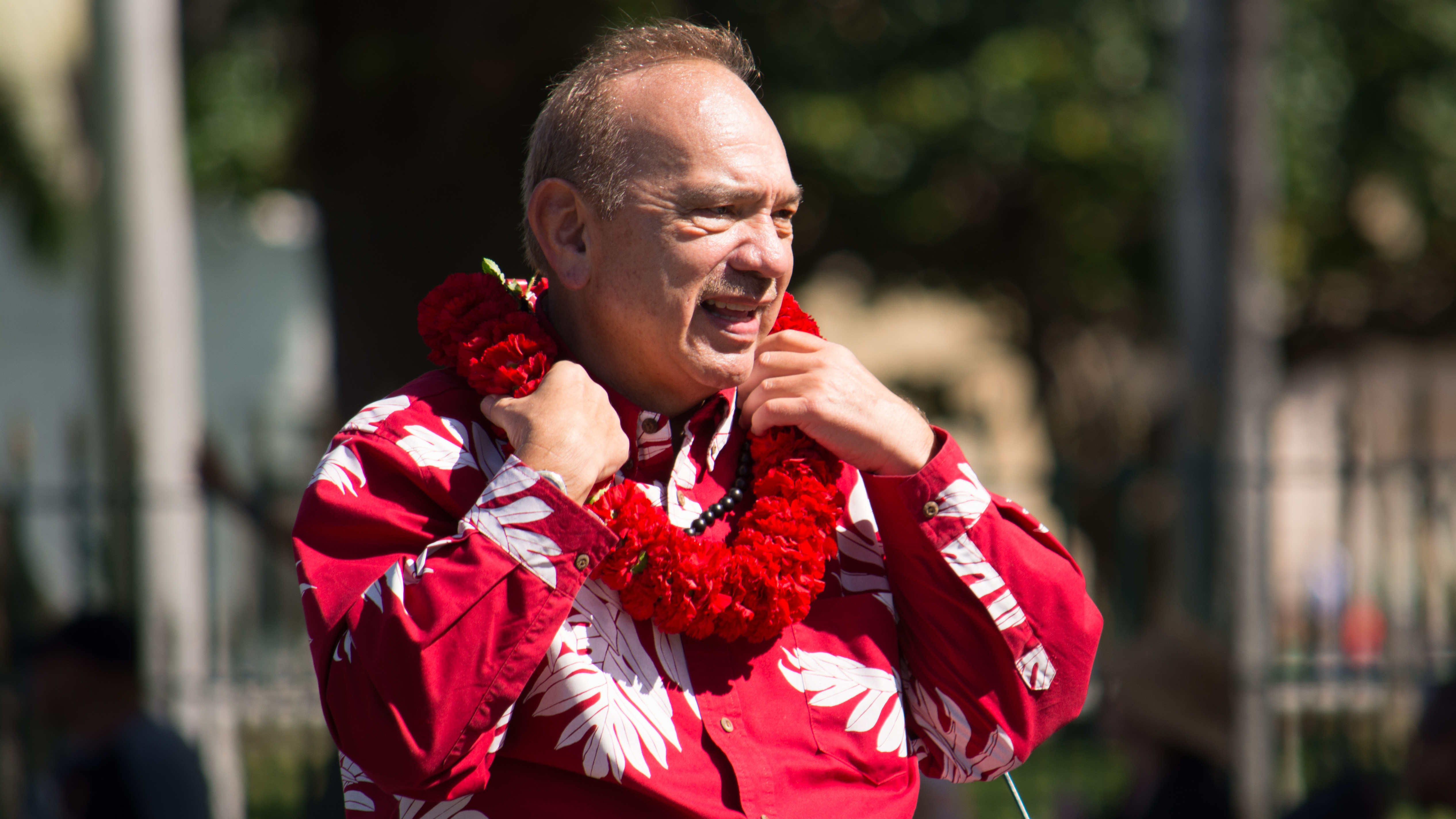 Former Hawaii Governor John Waihee attends the 100th King Kamehameha Parade in June 2016.